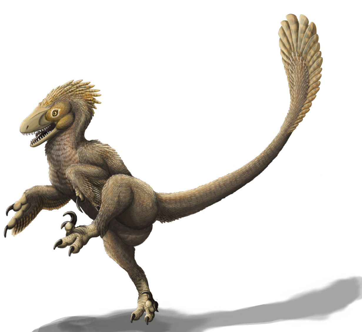 Balaur bondoc, the new dromaeosaurid from late Cretaceous Romania, displaying its unusual double sickle claws.